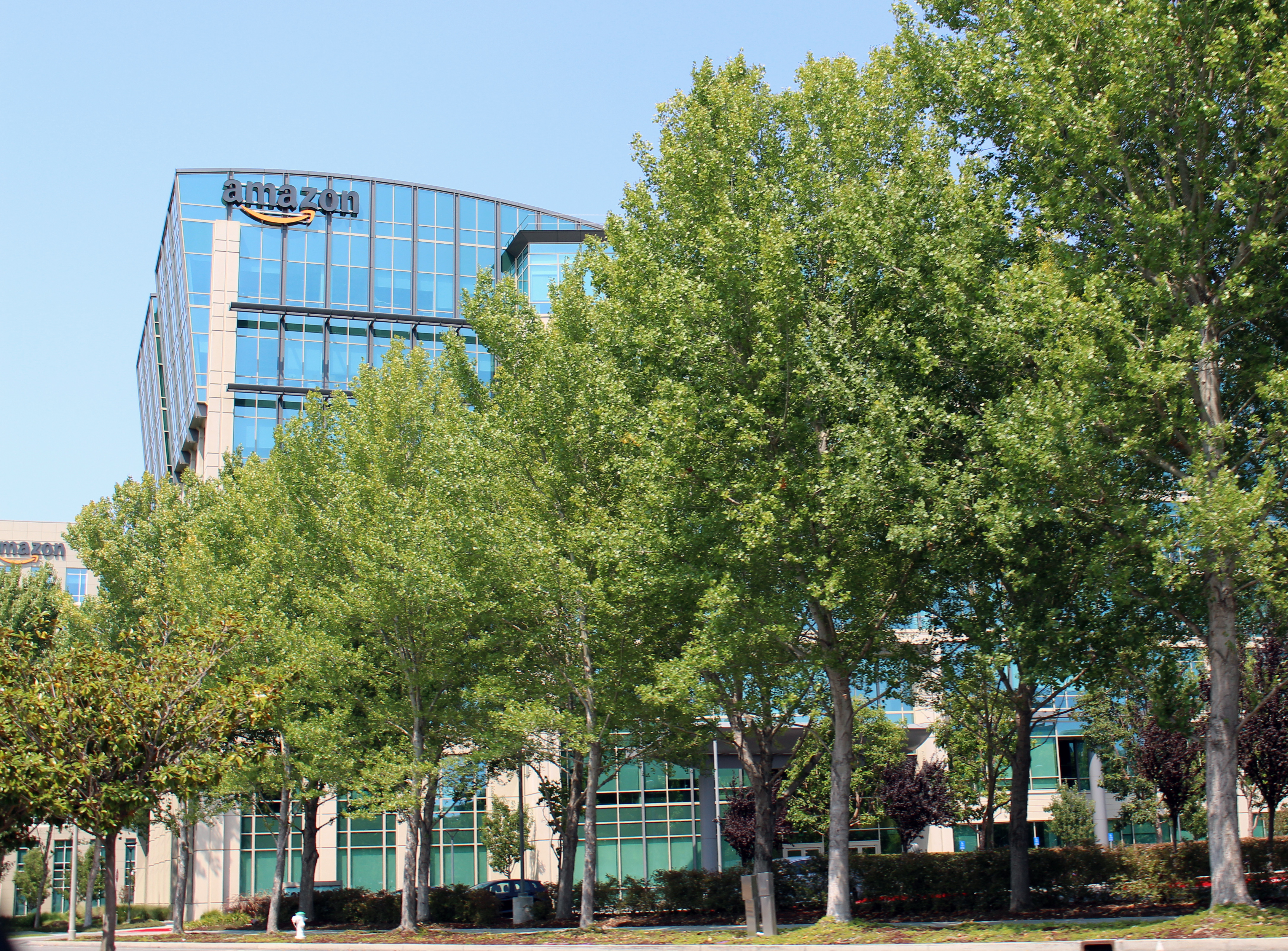 The headquarters of Amazon Lab126 at 1100 Enterprise Way in Sunnyvale, California. Photographed by user Coolcaesar on August 1, 2020.